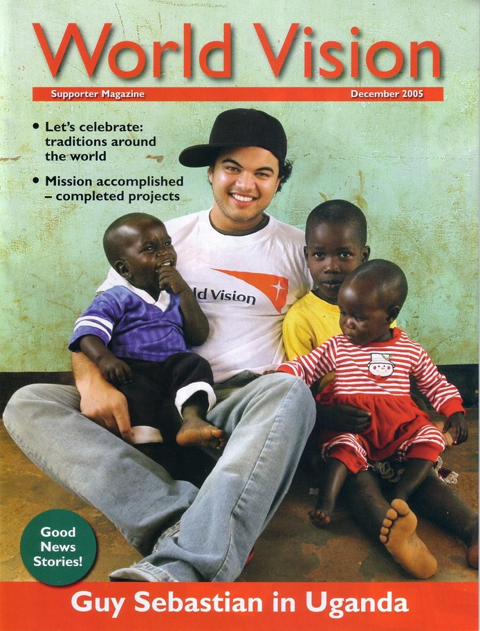 Guy Sebastian and African children. Scan of cover of World Vision Australia Magazine, December 2005